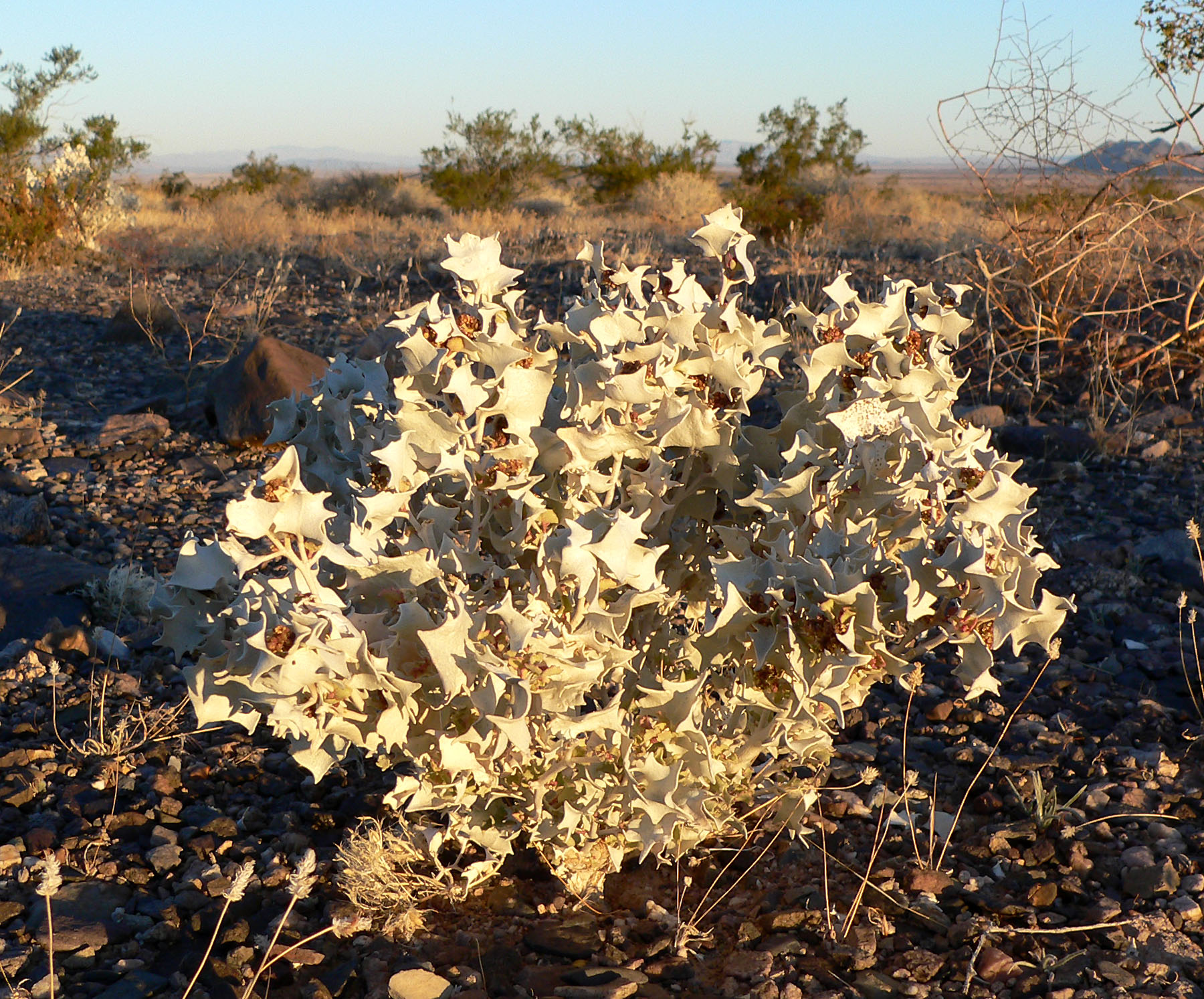 Atriplex hymenelytra near Ash Meadows, southern Nevada